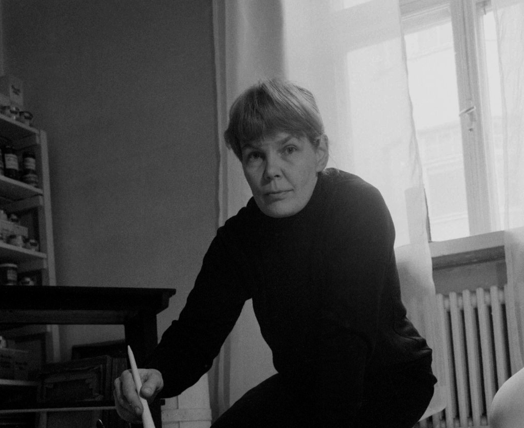 Photograph of the Finnish textile designer Maija Isola (1927–2001).